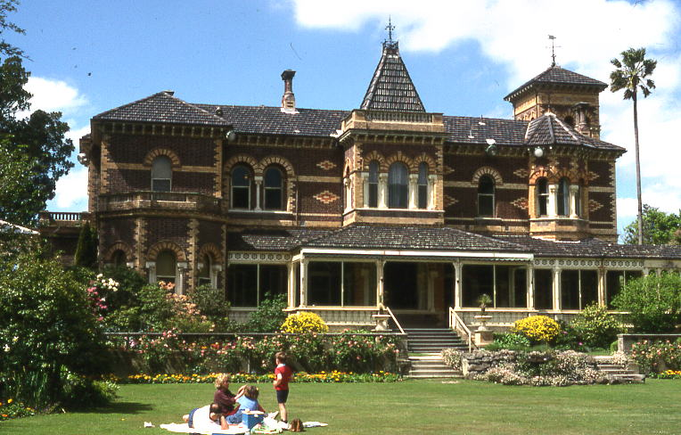 Ripponlea, Melbourne, Australia (Kodachrome slide scanned at low res, originally taken c.1990)